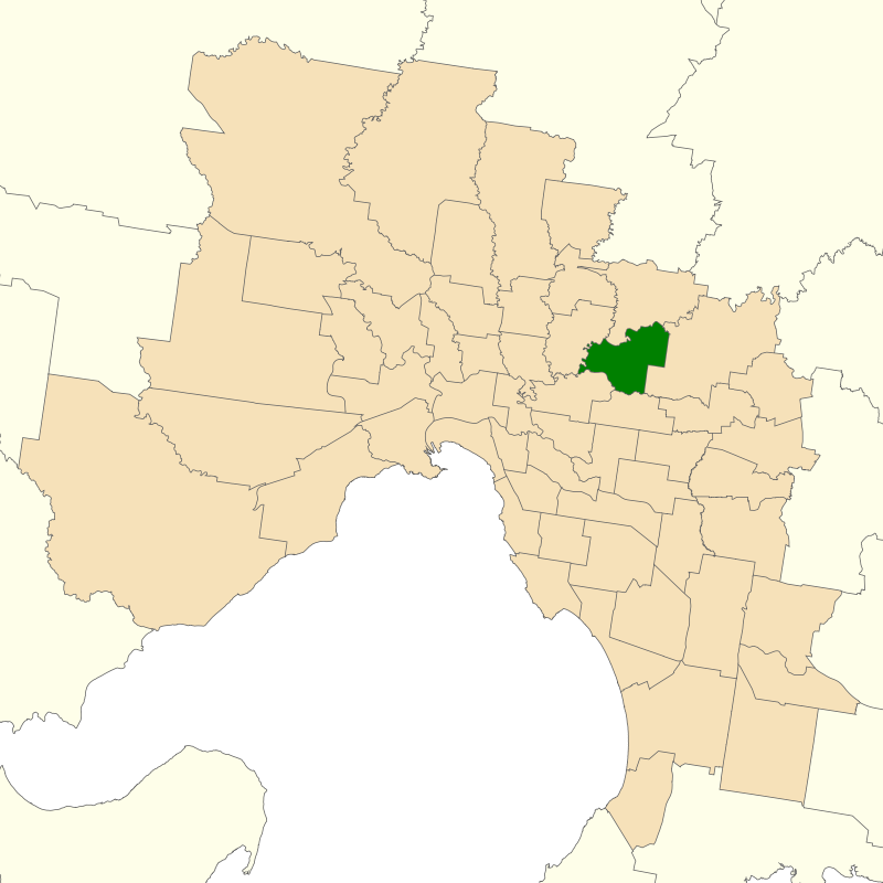 Location of the Victorian electoral district of Bulleen (dark green) in the Greater Melbourne area.